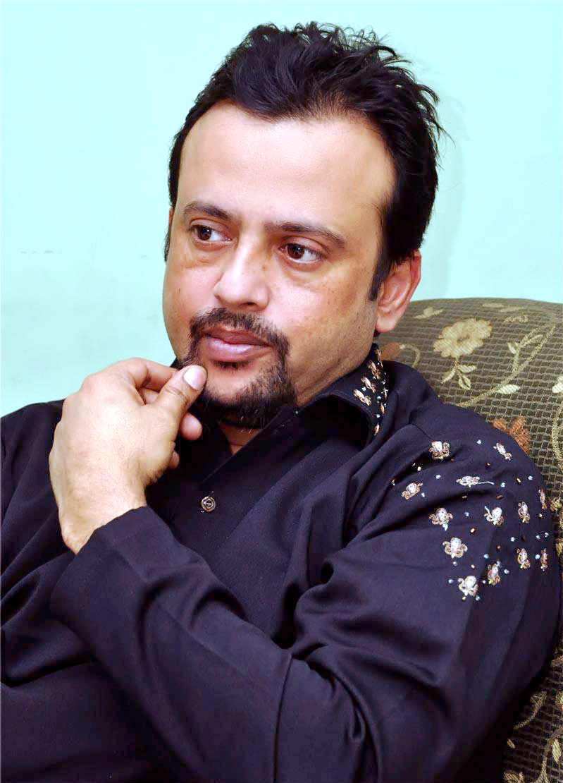 Riaz in his Banani house Dhaka 2014